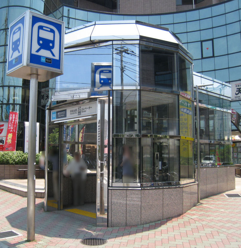 Heiwadai Station entrance with elevator access